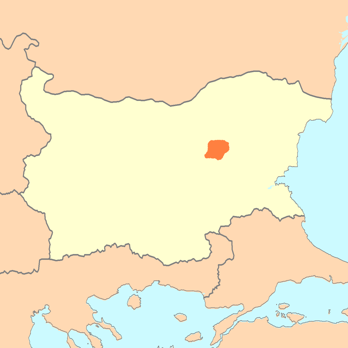 Kotel Sheep area of distribution